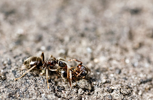 literally "carrying dead", corpse-ridding or "undertaking" behavior seen in some social insects (Necrophoresis)